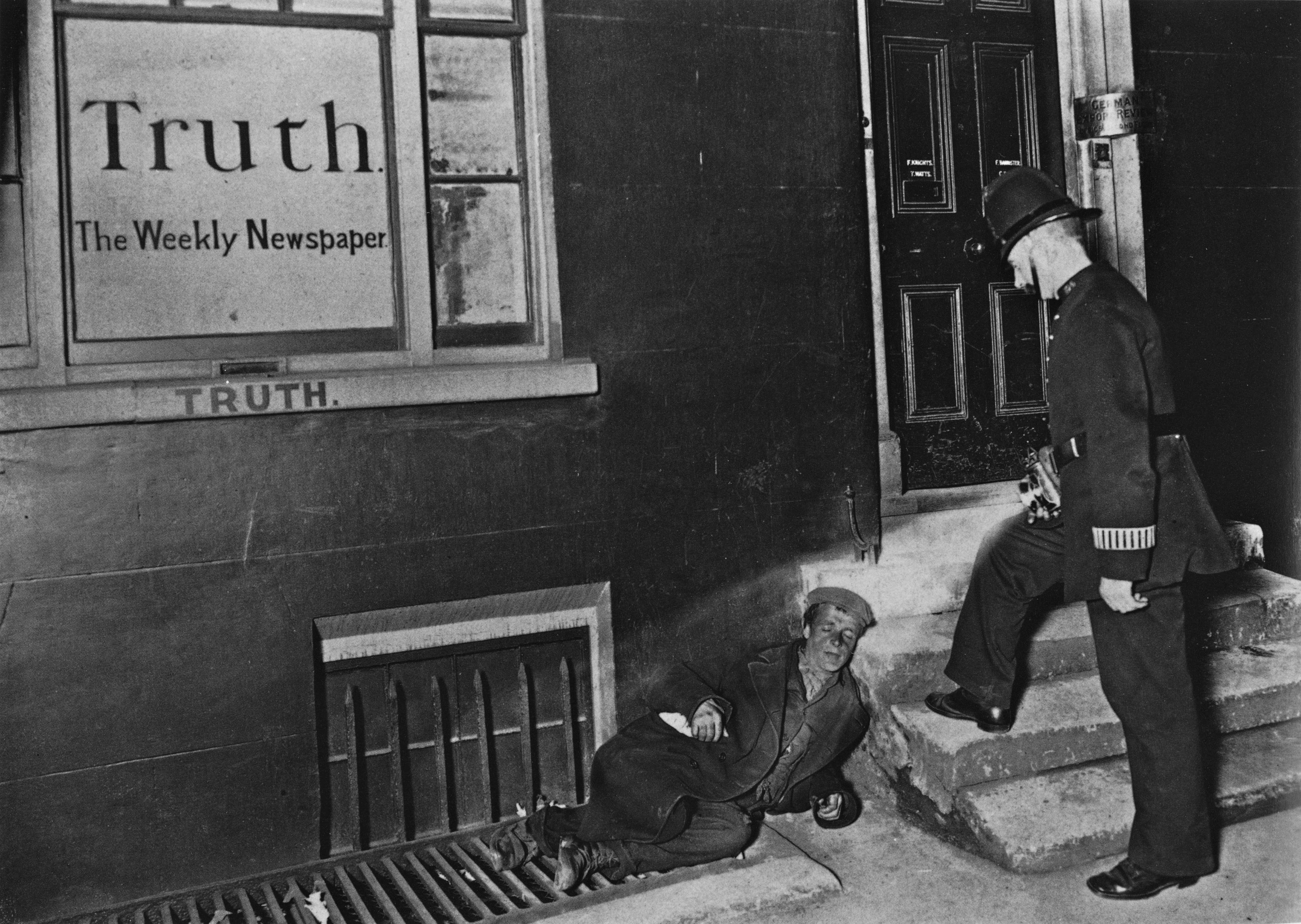 "Only were to be seen the policemen, flashing their dark lanterns into doorways and alleys"Photograph first published in: Jack London, The People of the Abyss, Macmillan, New York, 1903, 319 p., facing page 115. [1]